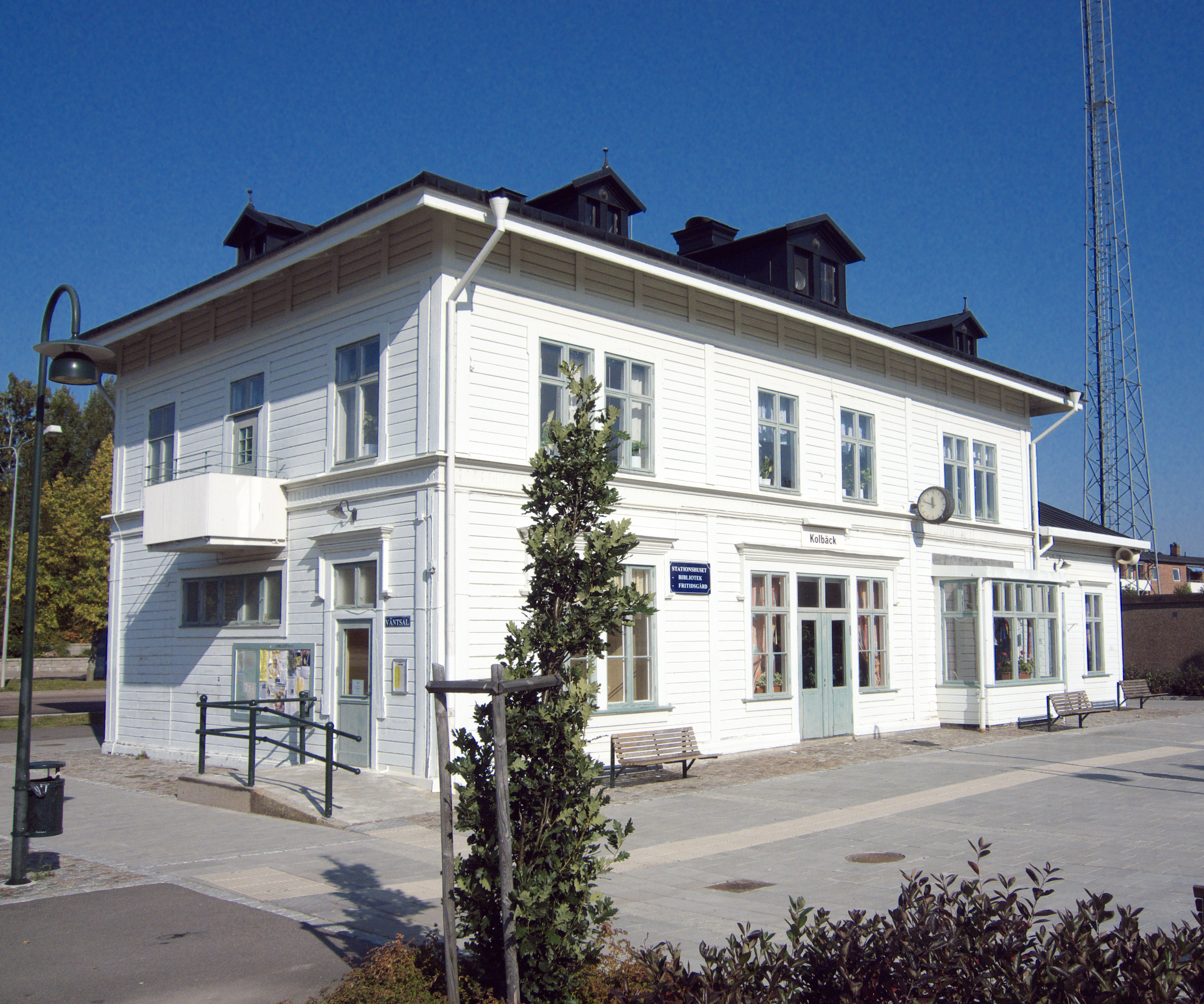 Kolbäck railway station